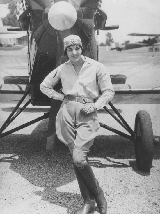 Catalog #: BIOE00333 Last Name: Elder First Name: Ruth Notes: Repository: San Diego Air and Space Museum Archive